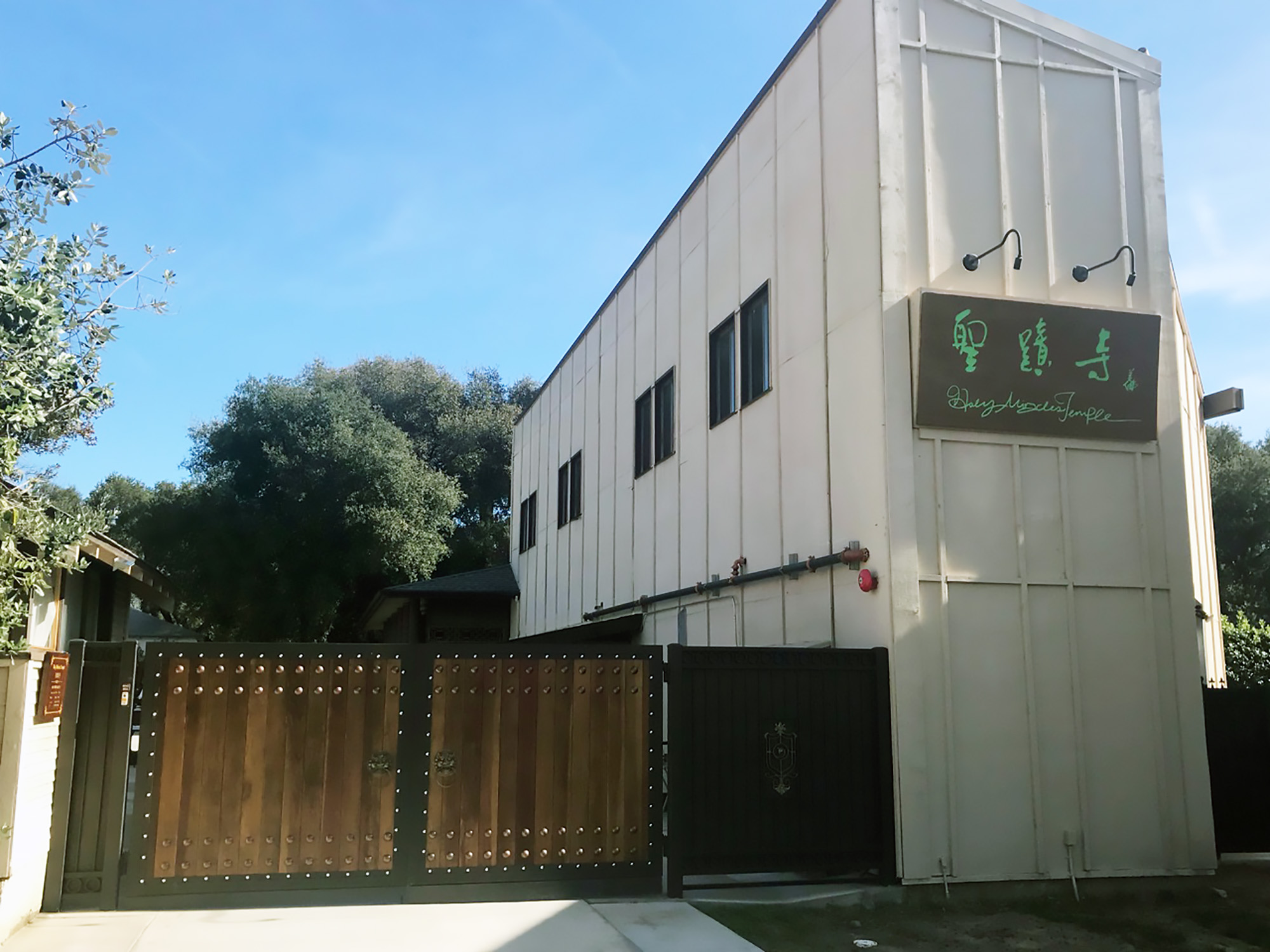 Front door to the Holy Miracles Temple, Pasadena, California